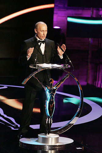 MARIINSKY THEATRE, ST PETERSBURG. At the awards ceremony of the Laureus World Sports Academy.